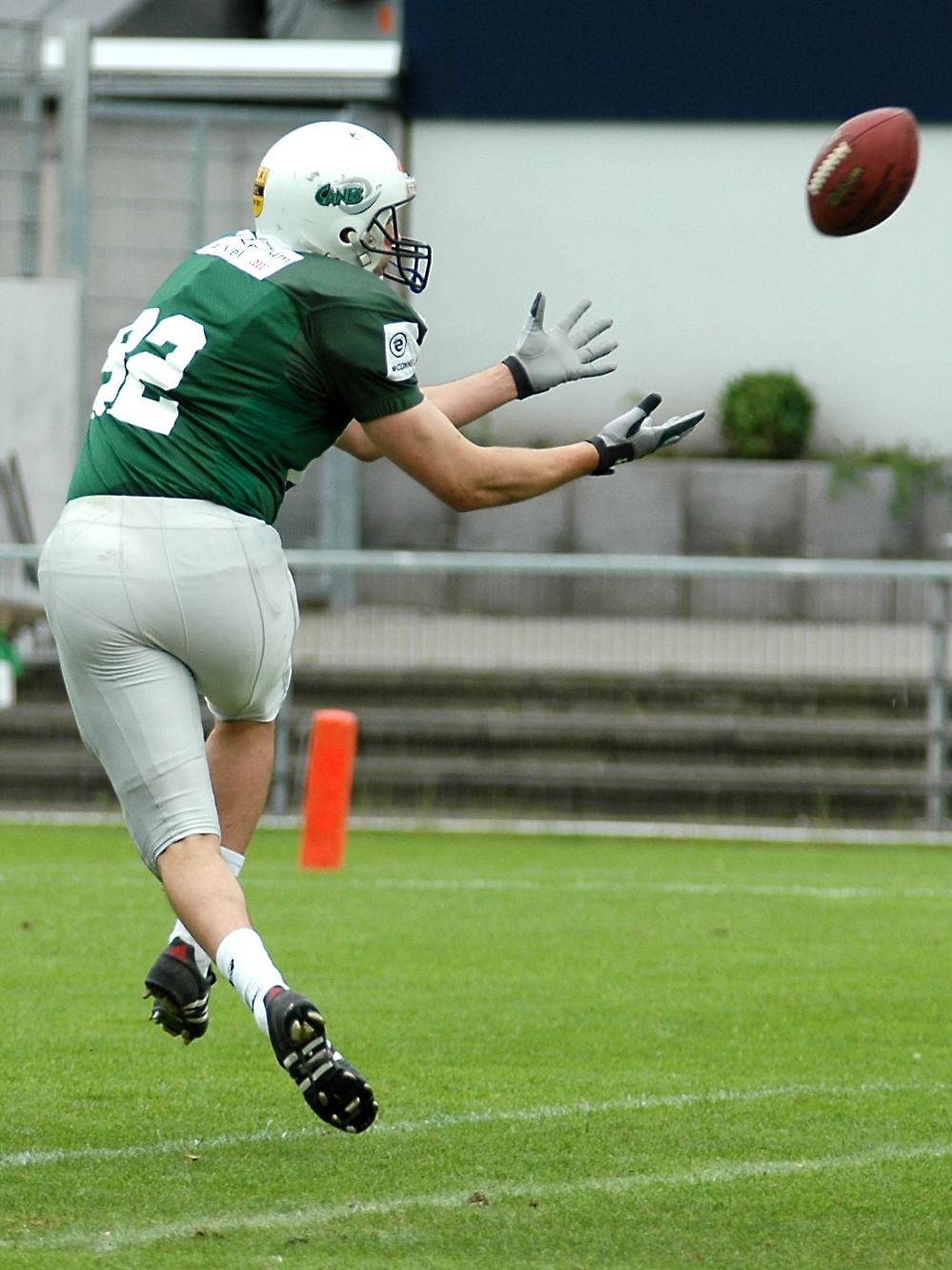 A Wide Receiver catching a ball. Team: Kiel Baltic Hurricanes